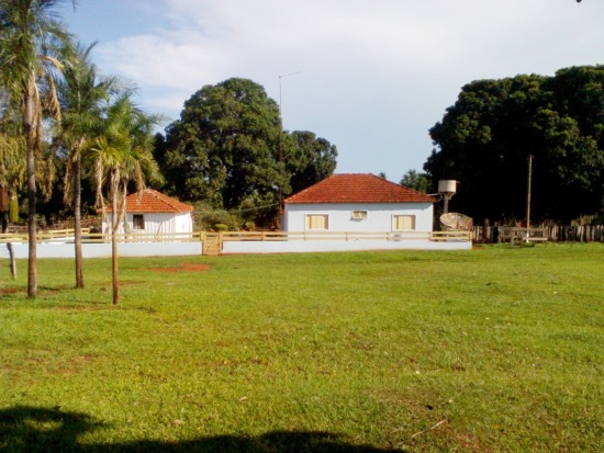 Colonel House Juscelino Ferreira Guimarães and Antonia Ferreira de Melo, the granddaughter of Antônio Trajano dos Santos, founder of Three Lakes, this home is headquarters of landlordism, Fazenda Pouso Alto, which contained 12 000 hectare. Cradle of Guimarães family in Mato Grosso do Sul